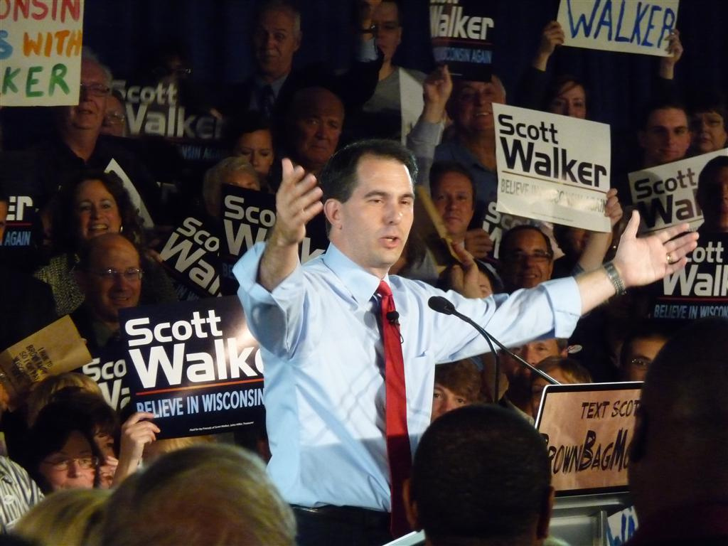 Scott Walker declares victory in Wisconsin GOP gubernatorial primary